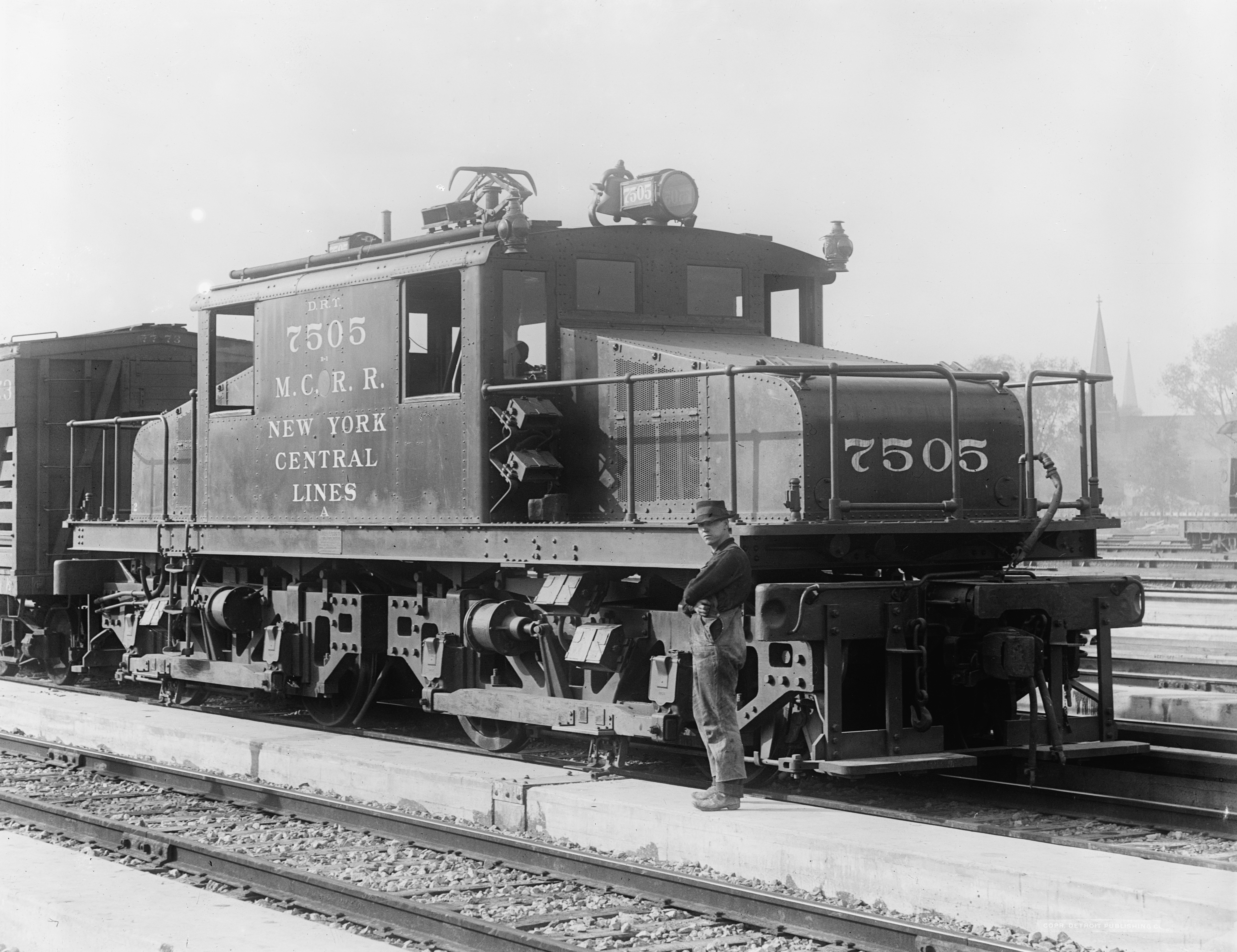 Electric engine, Detroit River tunnel Medium: 1 negative : glass ; 8 x 10 in. Part of: Detroit Publishing Company Photograph Collection Reproduction Number: LC-D4-72518 (b&w glass neg.) Call Number: LC-D4-72518 [P&P] Repository: Library of Congress Prints and Photographs Division Washington, D.C. 20540 USA Notes: Corresponding glass transparency (with same series code) available on videodisc frame 1A-30995. "M.C.R.R." [Michigan Central Railroad Company] on locomotive. Detroit Publishing Co. no. 072518. Gift; State Historical Society of Colorado; 1949.